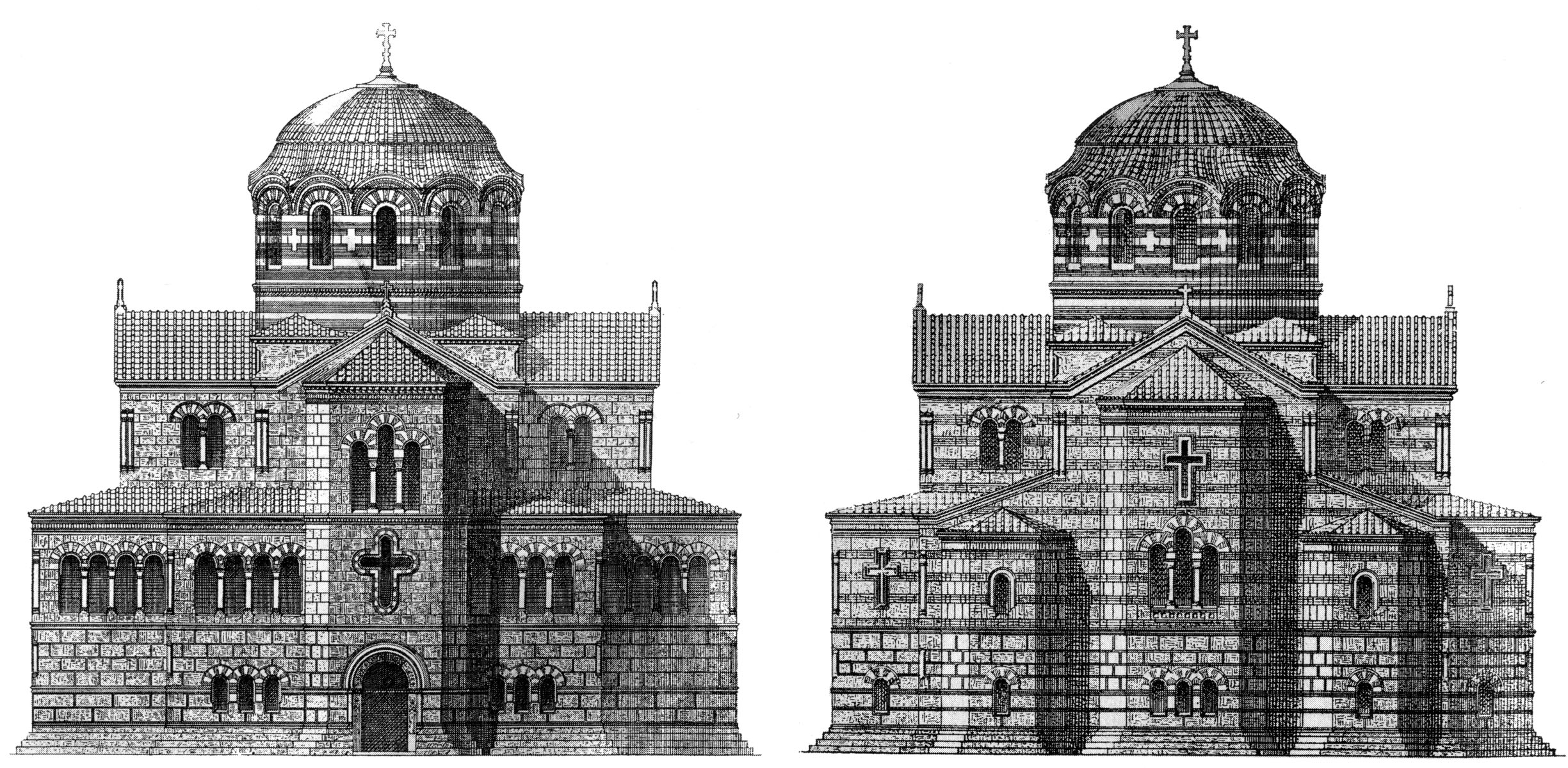 1859 design of Chersones Cathedral of St. Vladimir. Eastern and western facades